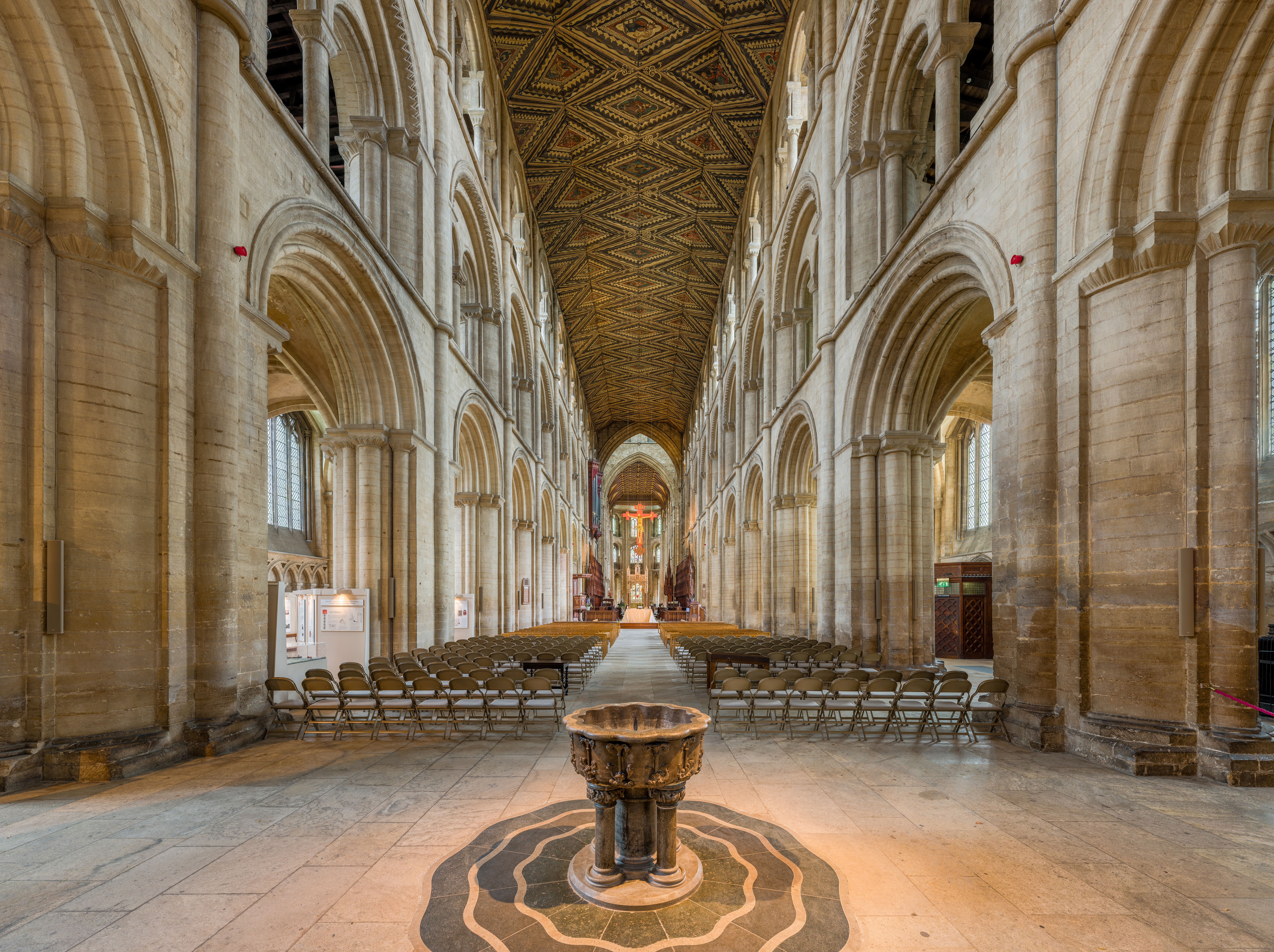 The nave of Peterborough Cathedral looking east in Cambridgeshire, England.